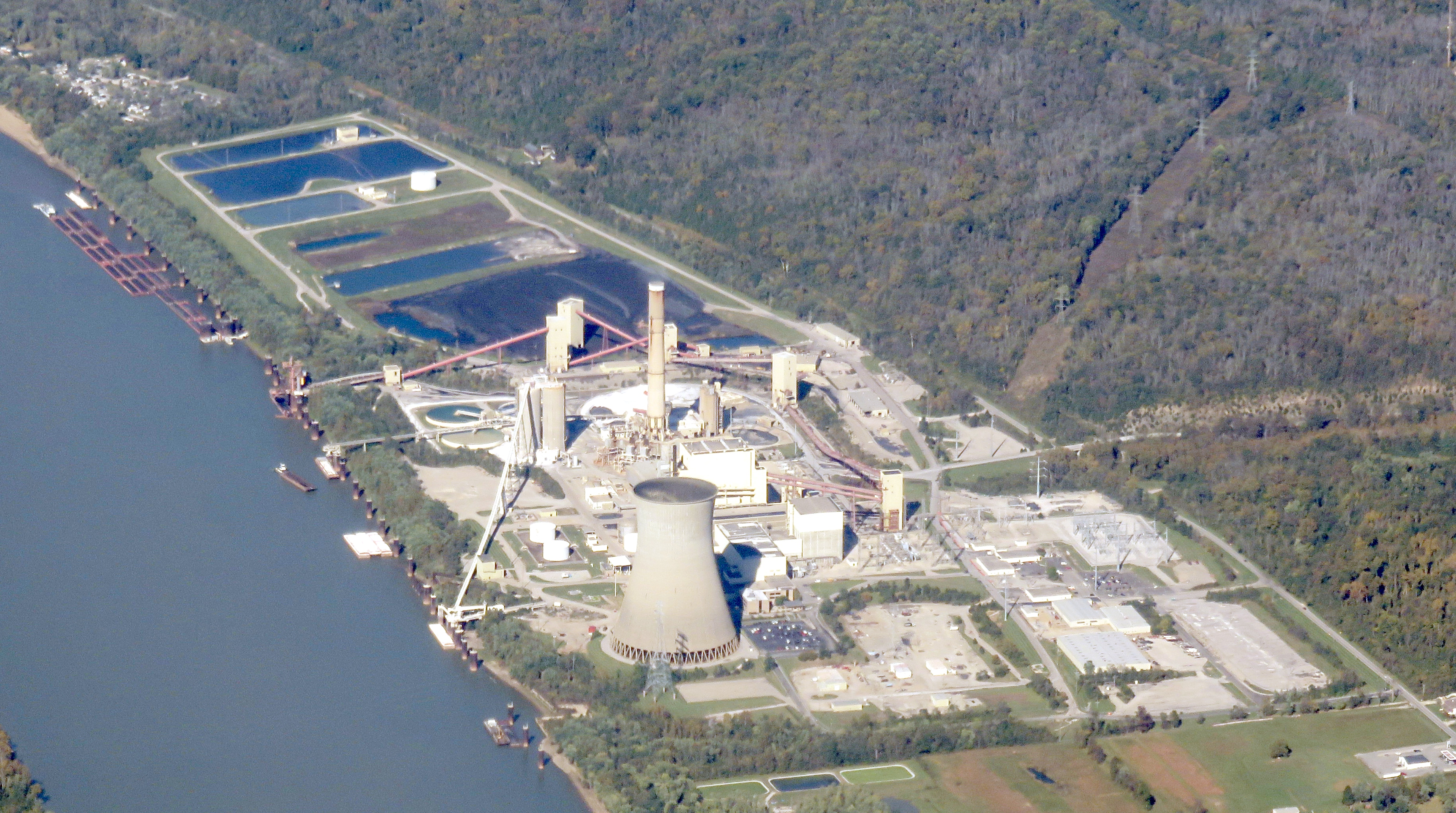 Aerial view of the William H. Zimmer Power Station on the Ohio River in 2017. Cropped photo and color corrected from original.